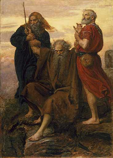 Victory O Lord, by John Everett Millais, the Amalekites defeated, as in Exodus 17:8-16, 1871 oil on canvas, at the Manchester City Galleries